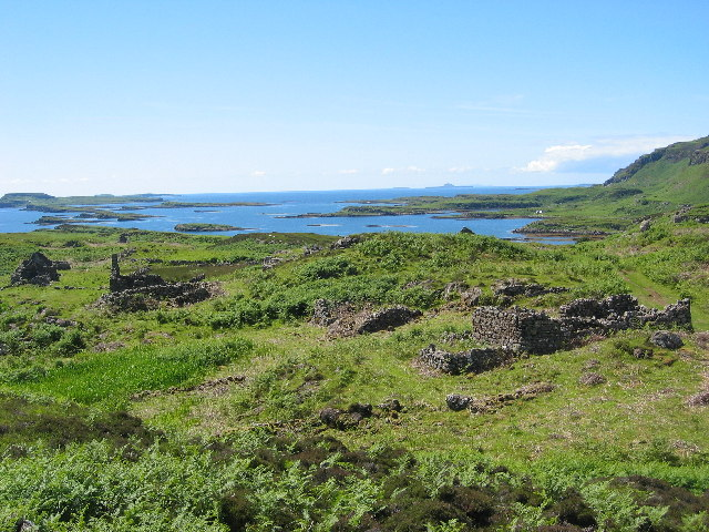 Ormaig Remains of the village. Bac Mor is visible in the distance.Isle of Ulva, Inner Hebrides.